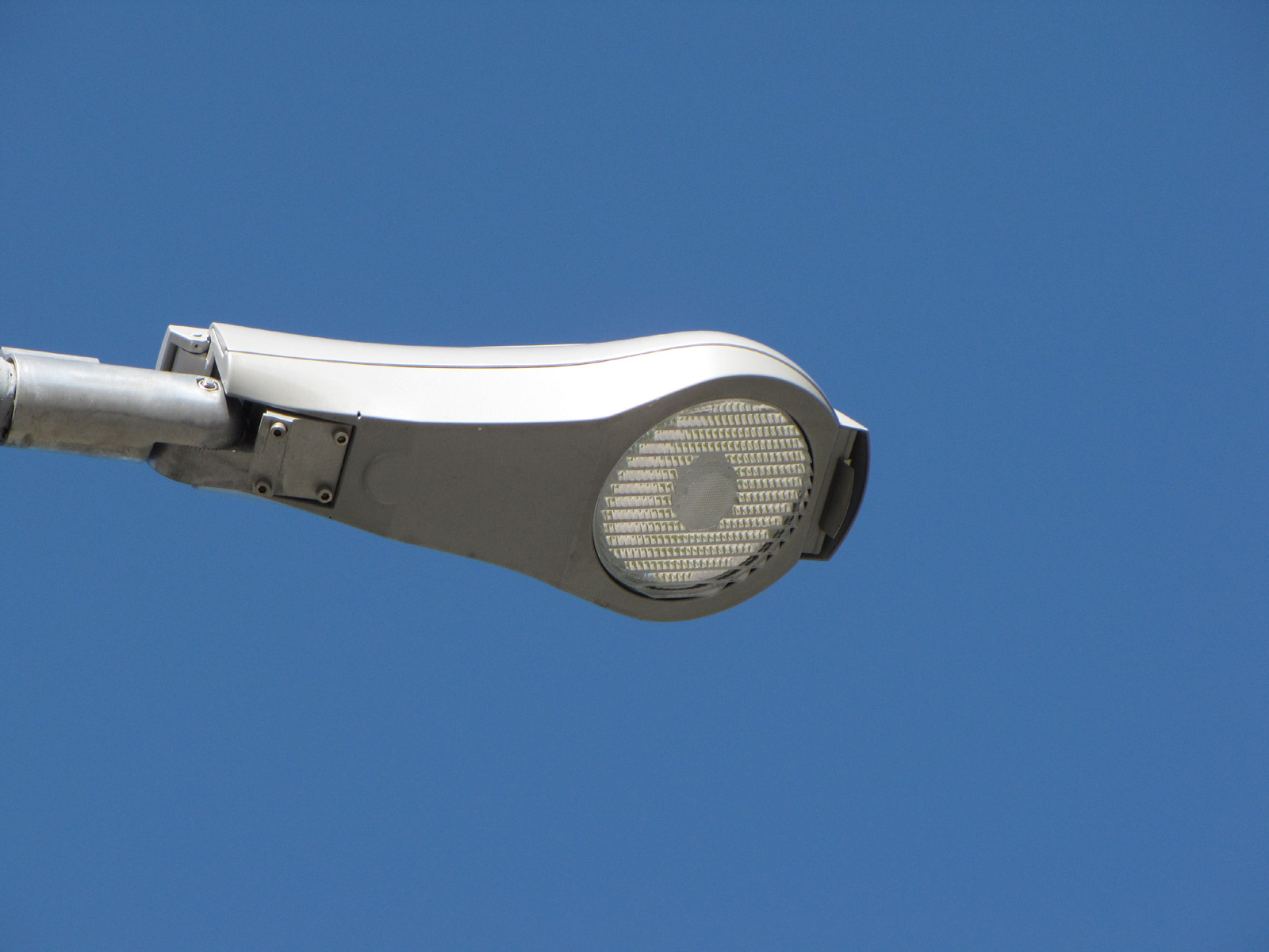 A modern streetlight in Sweden, using prismatic lenses in order to be more energy efficient.